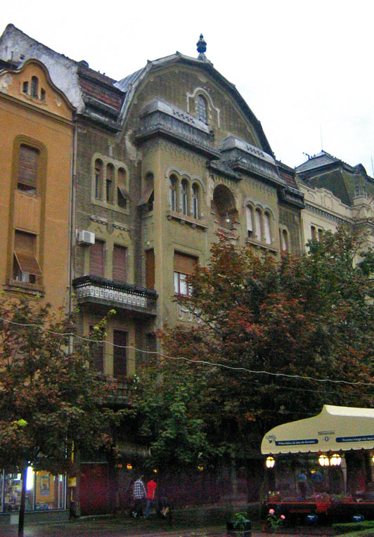 Neuhausz Palace, Victory Square, Timişoara, Romania (László Székely, 1912).